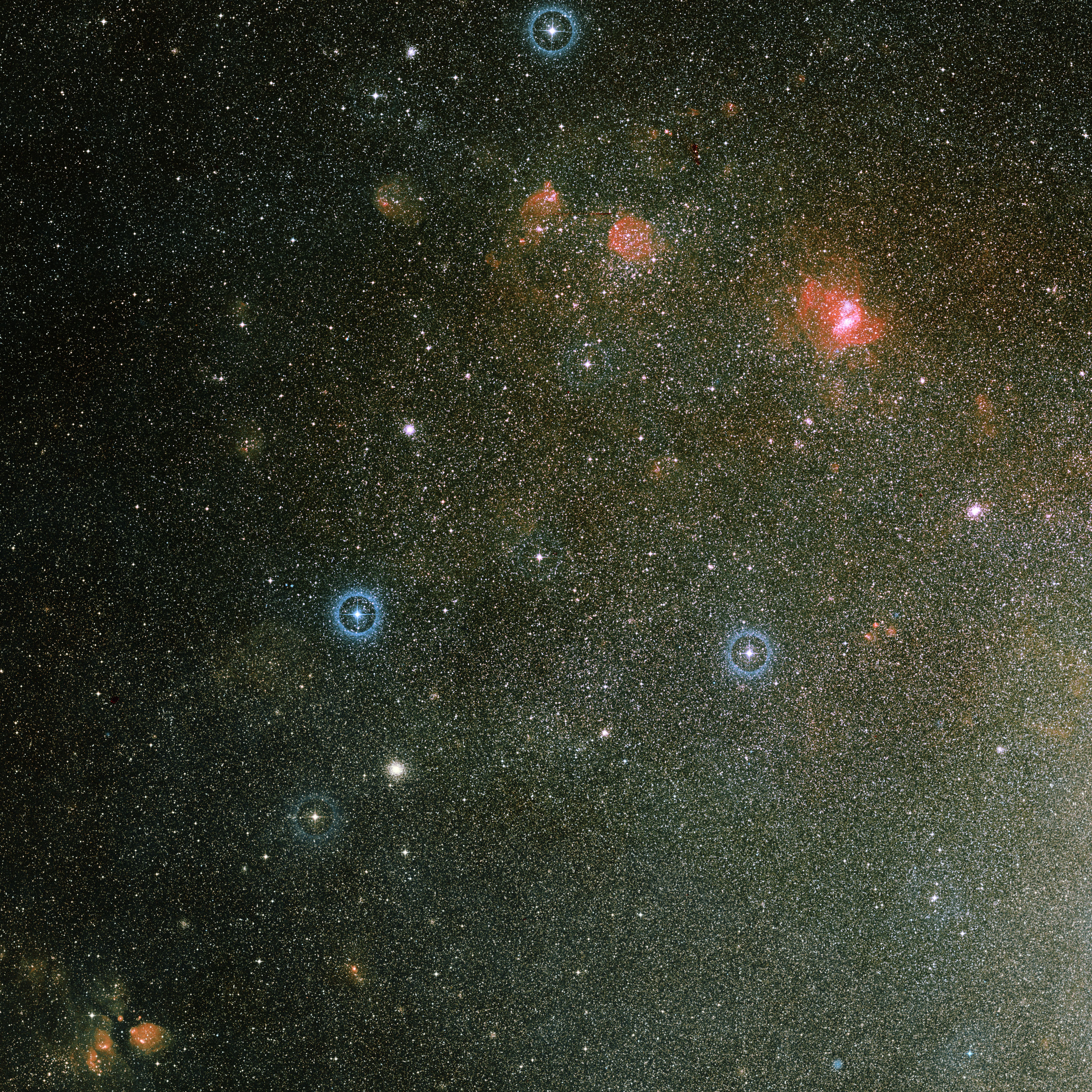 A region on the eastern side of the Small Magellanic Cloud (north is up)